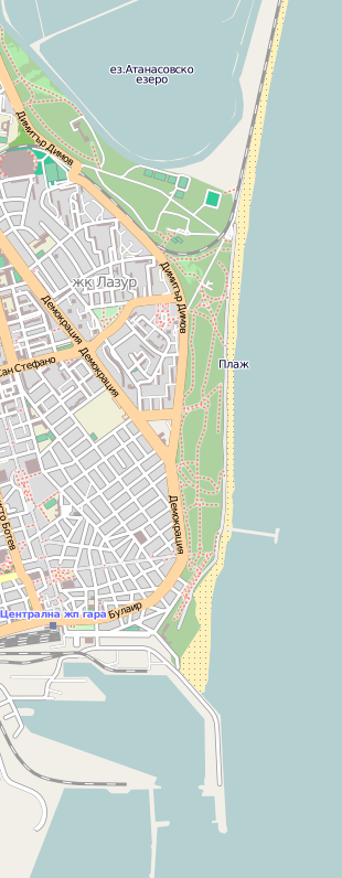 Burgas Seegarden